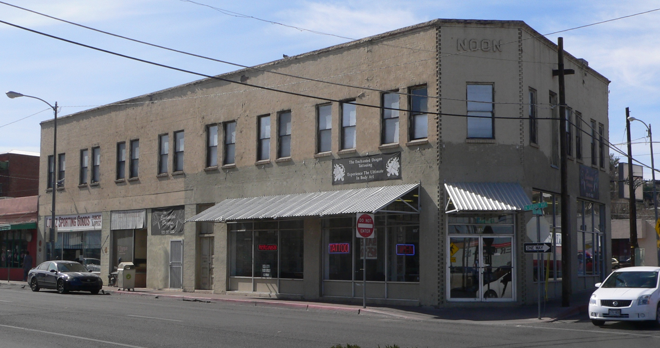 A. S. Noon Building, located at 171-179-185 Grand Avenue in Nogales, Arizona. Grand runs south-southwest to the left; Elm Street runs westward to right.